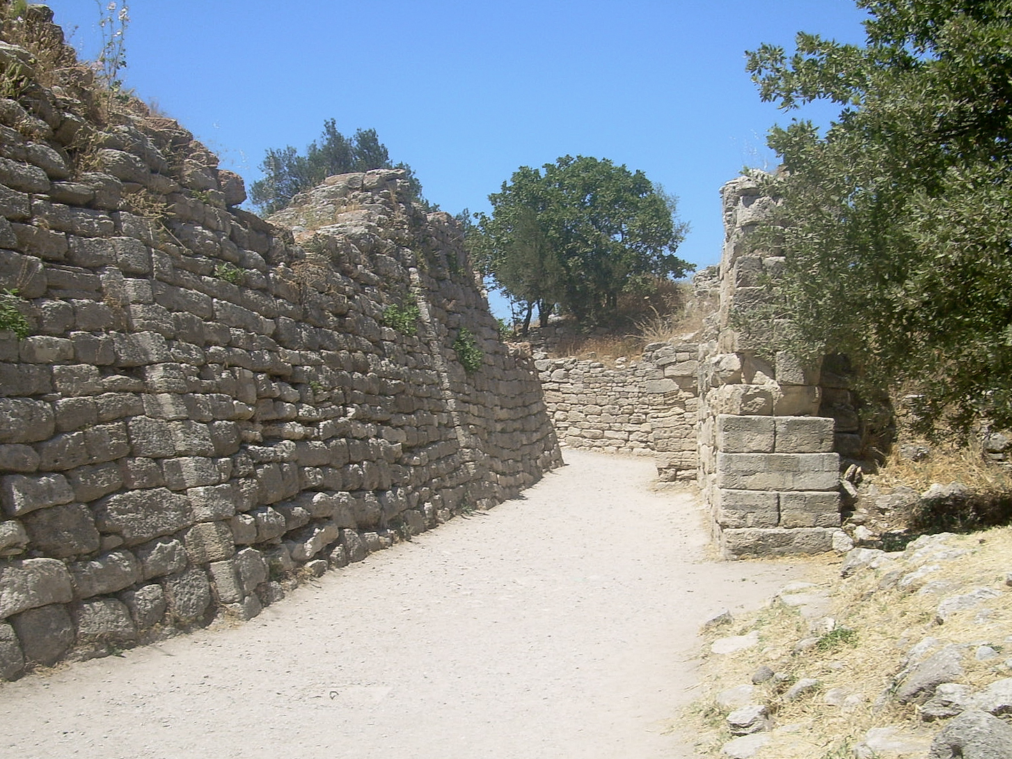 Walls of Troy, Hisarlik, Turkey